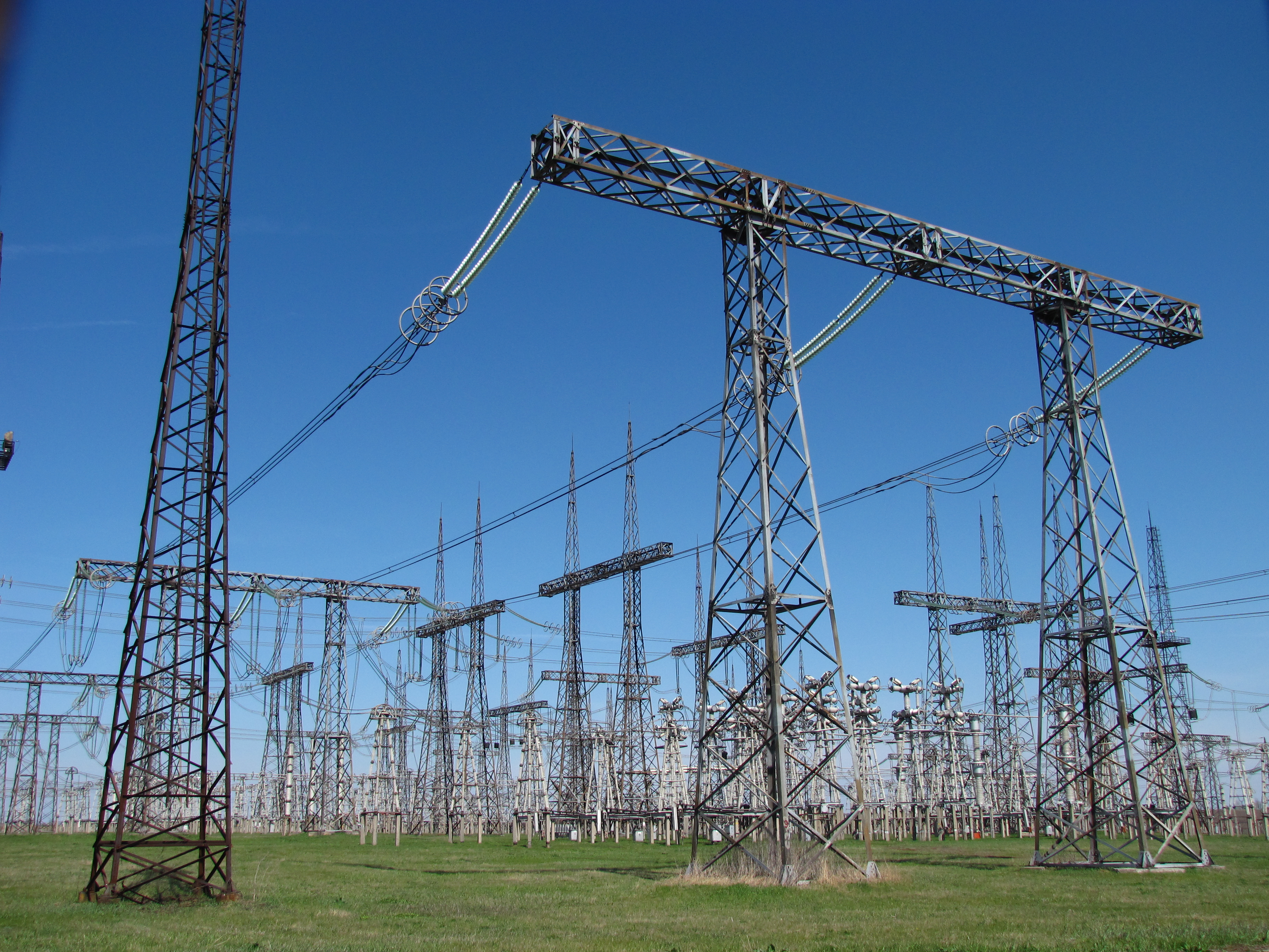 High voltage switchgear 750kV at the transmission substation.